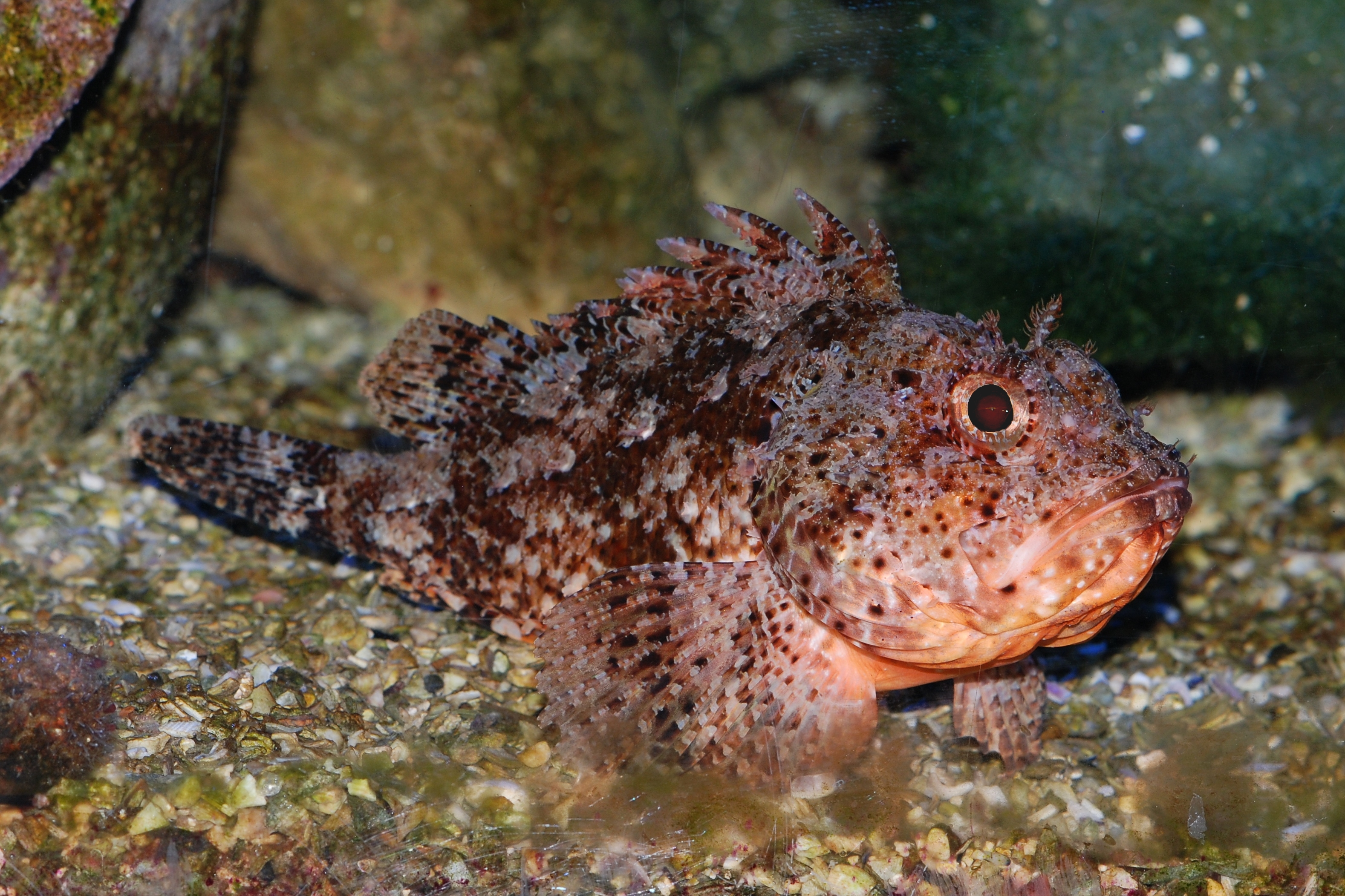 Scorpaena notata taken in the Tiergarten Schönbrunn (Zoo Vienna).